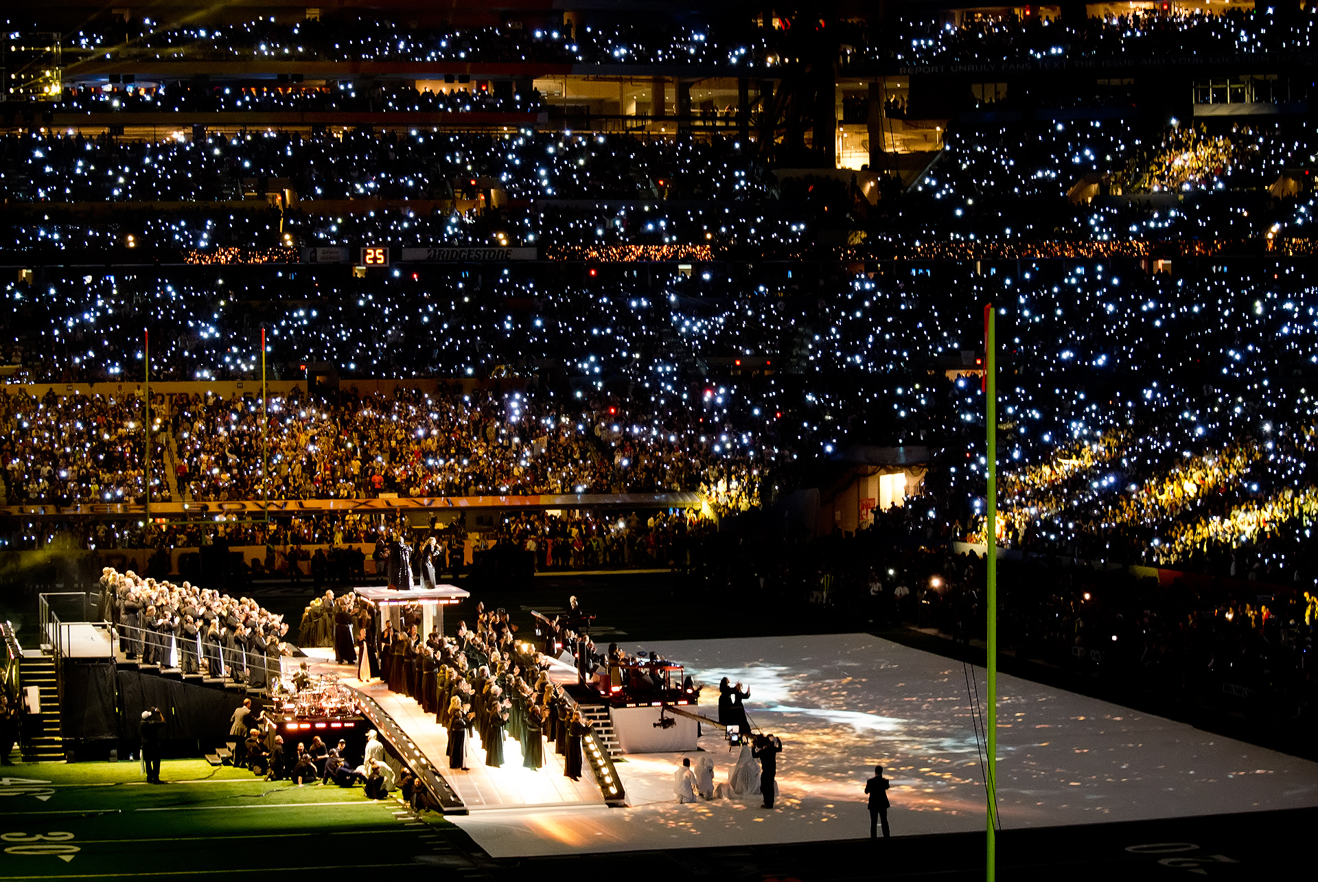 "Like A Prayer" being performed in the halftime show.